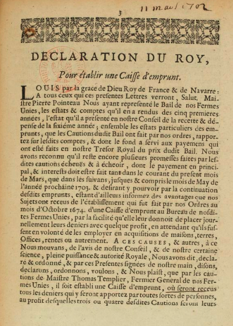 First page of Déclaration du Roy pour établir une caisse d'emprunt..., registrée en Parlement le 13 mars 1702, signed (reverse) by Phélypeaux [Louis II Phélypeaux de Pontchartrain], Chamillart [Michel Chamillart] et Dongois — Imprimerie de la Veuve F. Muguet et T. Muguet (Paris).